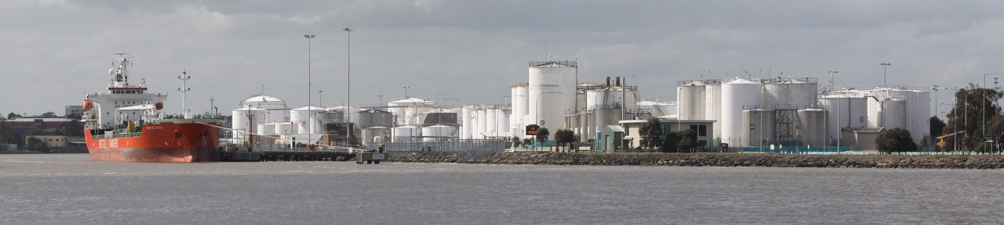 Melbourne's Coode Island viewed from the junction of the Maribyrnong River and Yarra Rivers. The ship to the left is the chemical tanker 'Bow De Rich' (IMO Number: 9279939) operated by Odfjell.